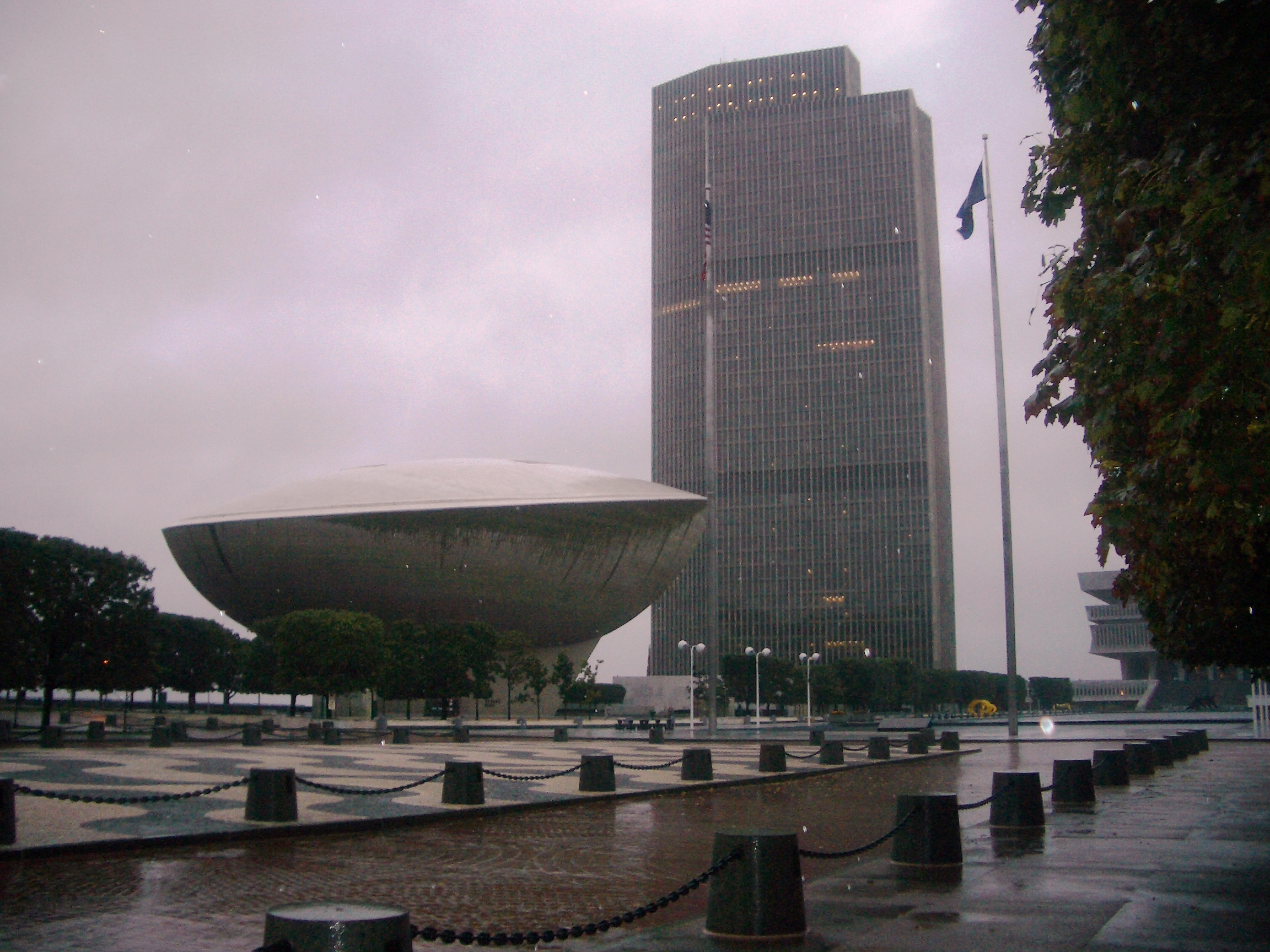 I took the photo